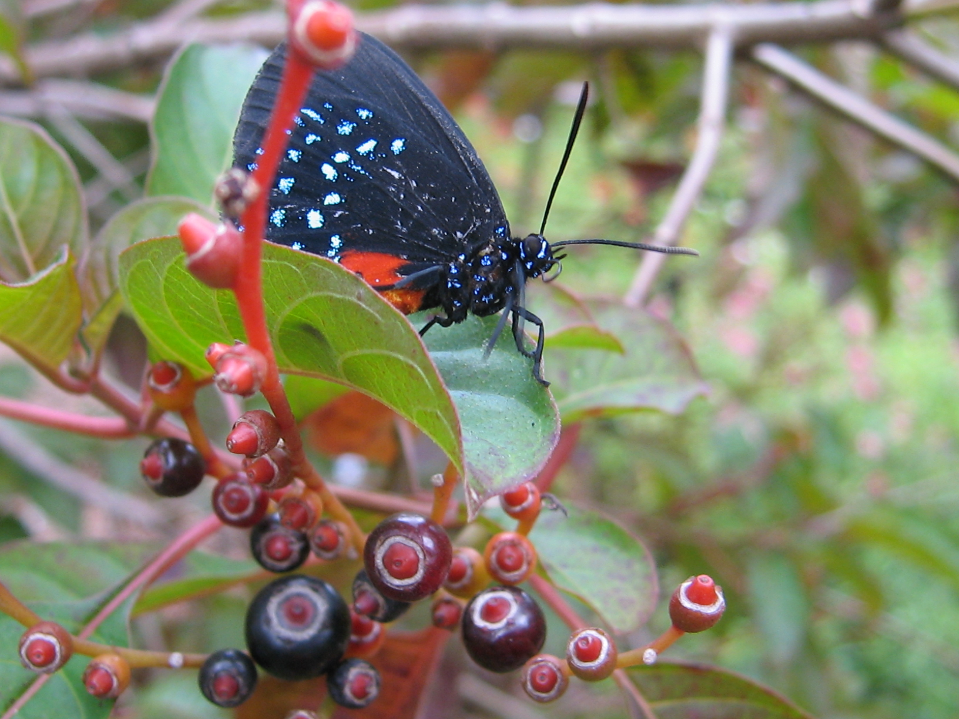 An atala butterfly Eumaeus atala sitting in a fire bush Hamelia patens. Image taken in Secret Woods Nature Center.